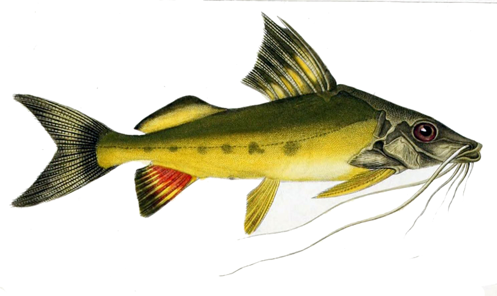 « Pimelodus maculatus » = Pimelodus maculatus